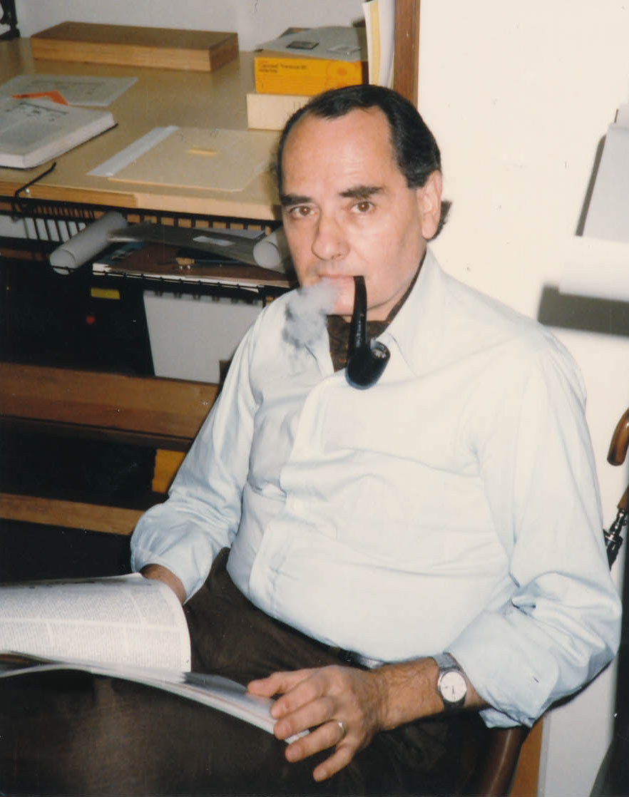 Dr Oscar White Muscarella, Senior Research Fellow, Department of Ancient Near Eastern Art, Metropolitan Museum of Art, New York. Photo Elizabeth Simpson,1986.